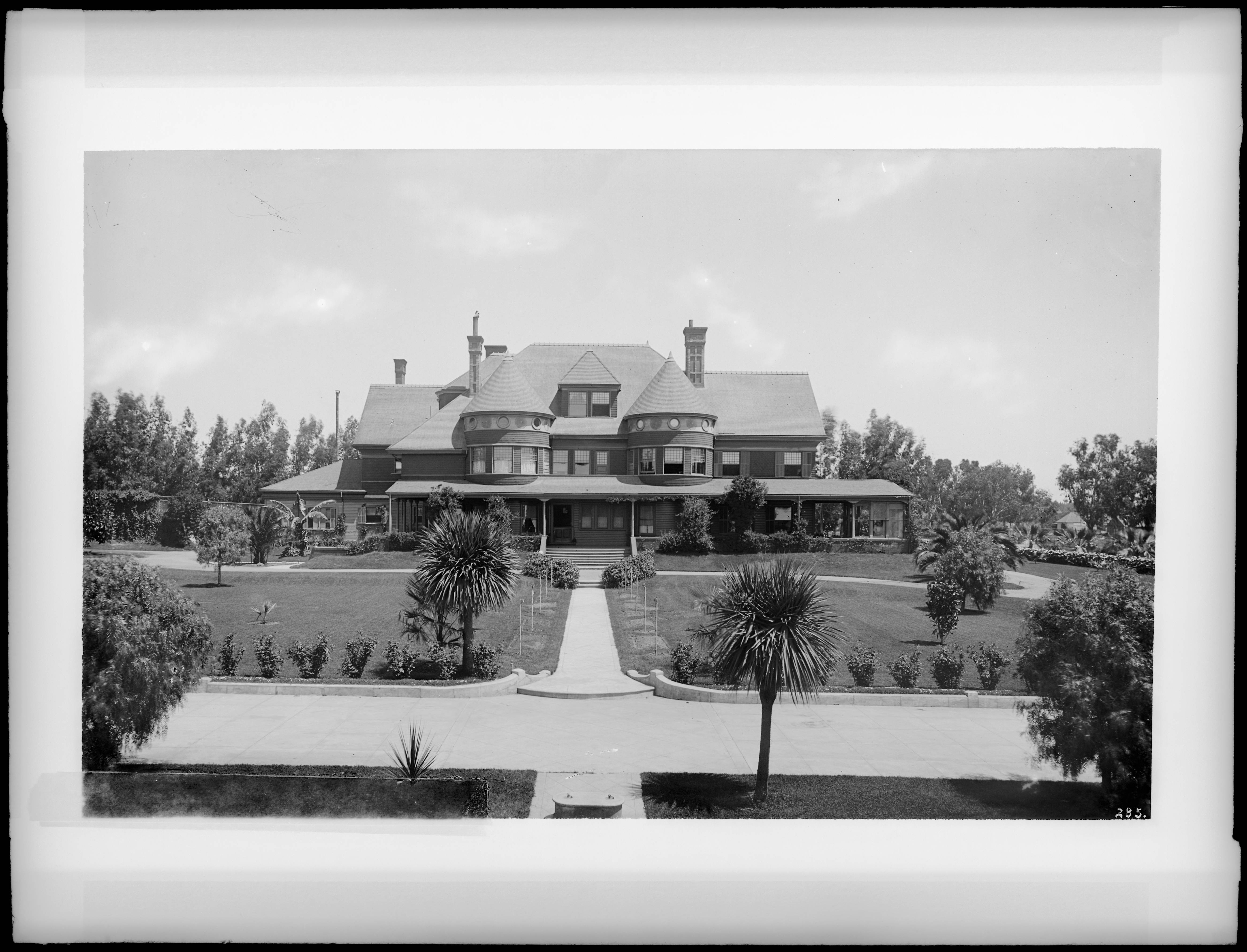 Senator Jones Residence in Santa Monica, ca.1890-1920 Photograph of Senator Jones residence (later the site of the Miramar Hotel) in Santa Monica showing front lawn across drive, ca.1890-1920. A footpath leads from the drive to the house and is crossed by another path which goes around the house. The house itself has two round turrets in front. Trees and bushes are planted at intervals in the lawn. Call number: CHS-285 Filename: CHS-285 Coverage date: circa 1890/1920 Part of collection: California Historical Society Collection, 1860-1960 Format: glass plate negatives Type: images Geographic subject (city or populated place): Santa Monica Repository name: USC Libraries Special Collections Accession number: 285 Microfiche number: 1-54- Archival file: chs_Volume35/CHS-285.tiff Part of subcollection: Title Insurance and Trust, and C.C. Pierce Photography Collection, 1860-1960 Repository address: Doheny Memorial Library, Los Angeles, CA 90089-0189 Geographic subject (country): USA Format (aacr2): 1 photograph : glass photonegative, b&w ; 13 x 20 cm. Rights: Digitally reproduced by the USC Digital Library; From the California Historical Society Collection at the University of Southern California Subject (adlf): residential sites Project: USC Repository Contributing entity: California Historical Society Date created: circa 1890/1920 Publisher (of the digital version): University of Southern California. Libraries Format (aat): photographs Geographic subject (state): California Subject (file heading): Los Angeles County -- Santa Monica -- Architecture -- Domestic Legacy record ID: chs-m2464; USC-1-1-1-2527 Access conditions: Send requests to address or e-mail given. Phone (213) 821-2366; fax (213) 740-2343. Geographic subject (county): Los Angeles Subject (lcsh): Architecture, Domestic